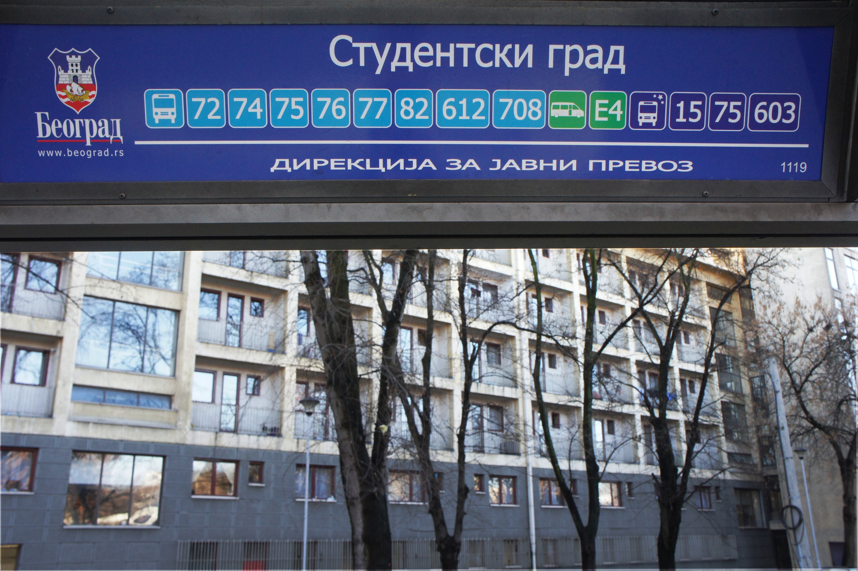 Studentski grad, Beograd, Srbija.